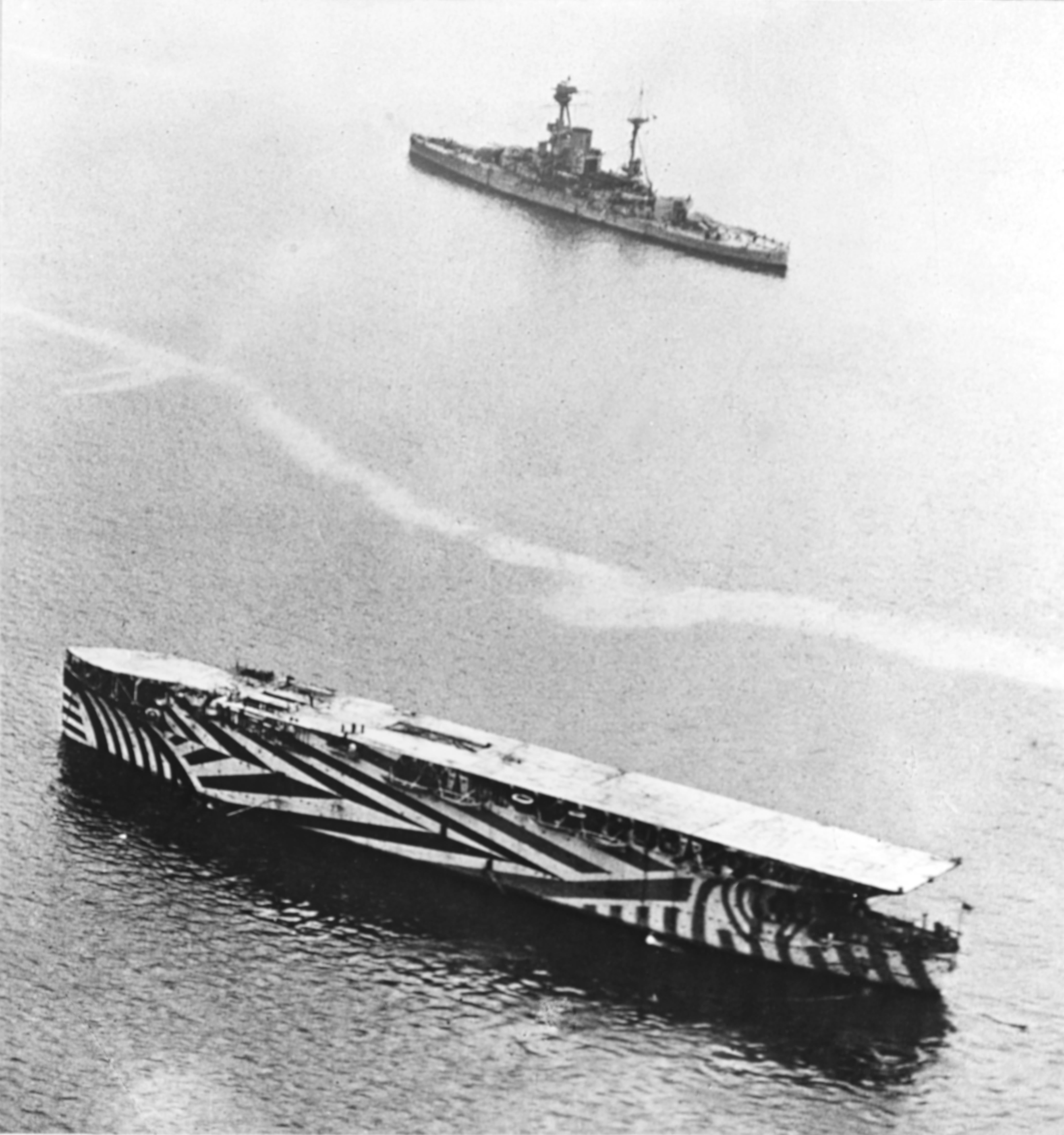 HMS Argus (I49) in habour in 1918, painted in dazzle camouflage, with a Renown class battlecruiser in the distance